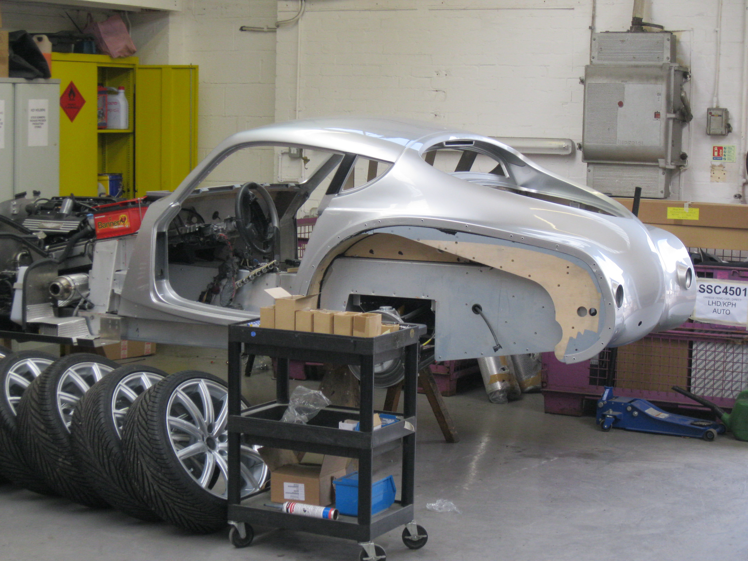 Morgan Aero Super Sport Coupe during production